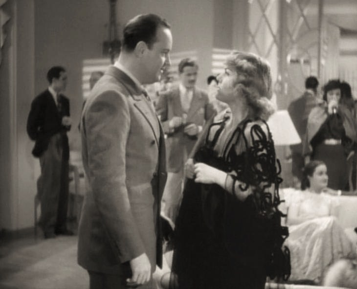 Grady Sutton & Carole Lombard in My Man Godfrey - cropped screenshot